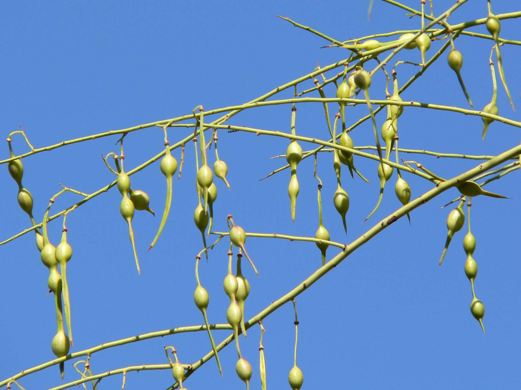 Photo of Parkinsonia microphylla (foothills palo verde) at the Springs Preserve garden in Las Vegas, Nevada